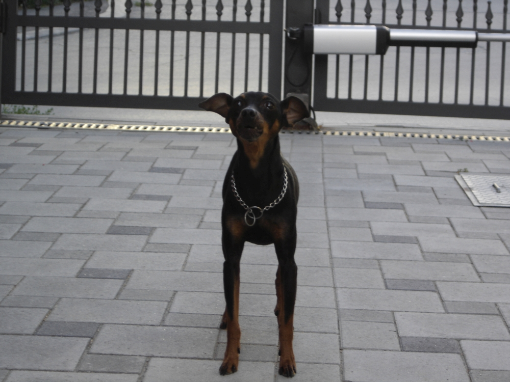 Miniature Pinscher guarding his backyard